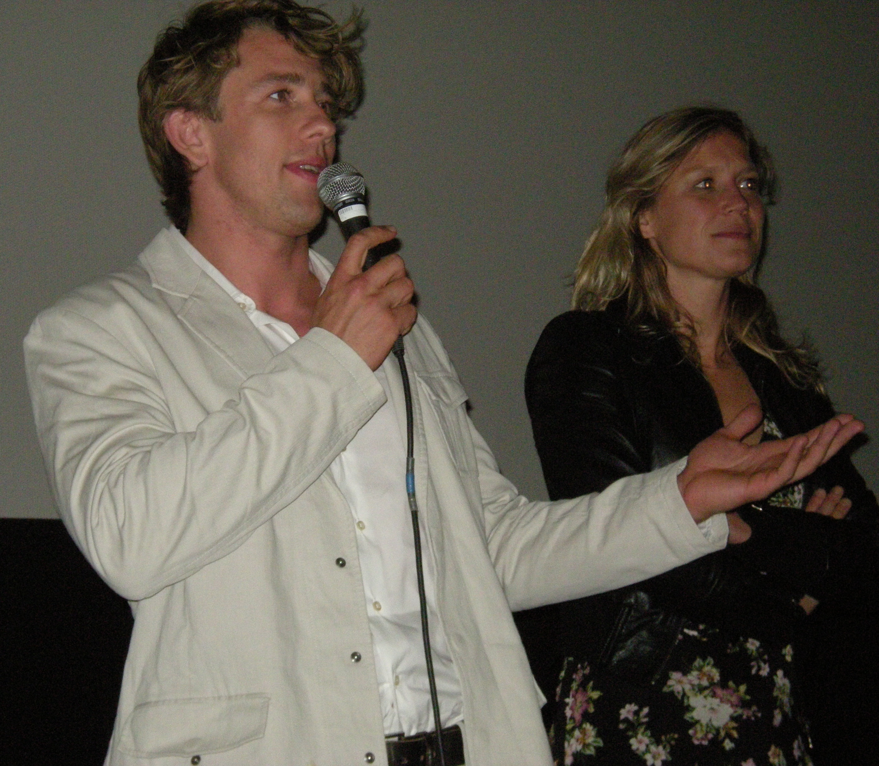 Waldemar Torenstra & Sophie Hilbrand attending a showing of the film Zomerhitte (Summer Heat), in which they starred. Seattle International Film Festival, Seattle, Washington, Seattle, Washington.